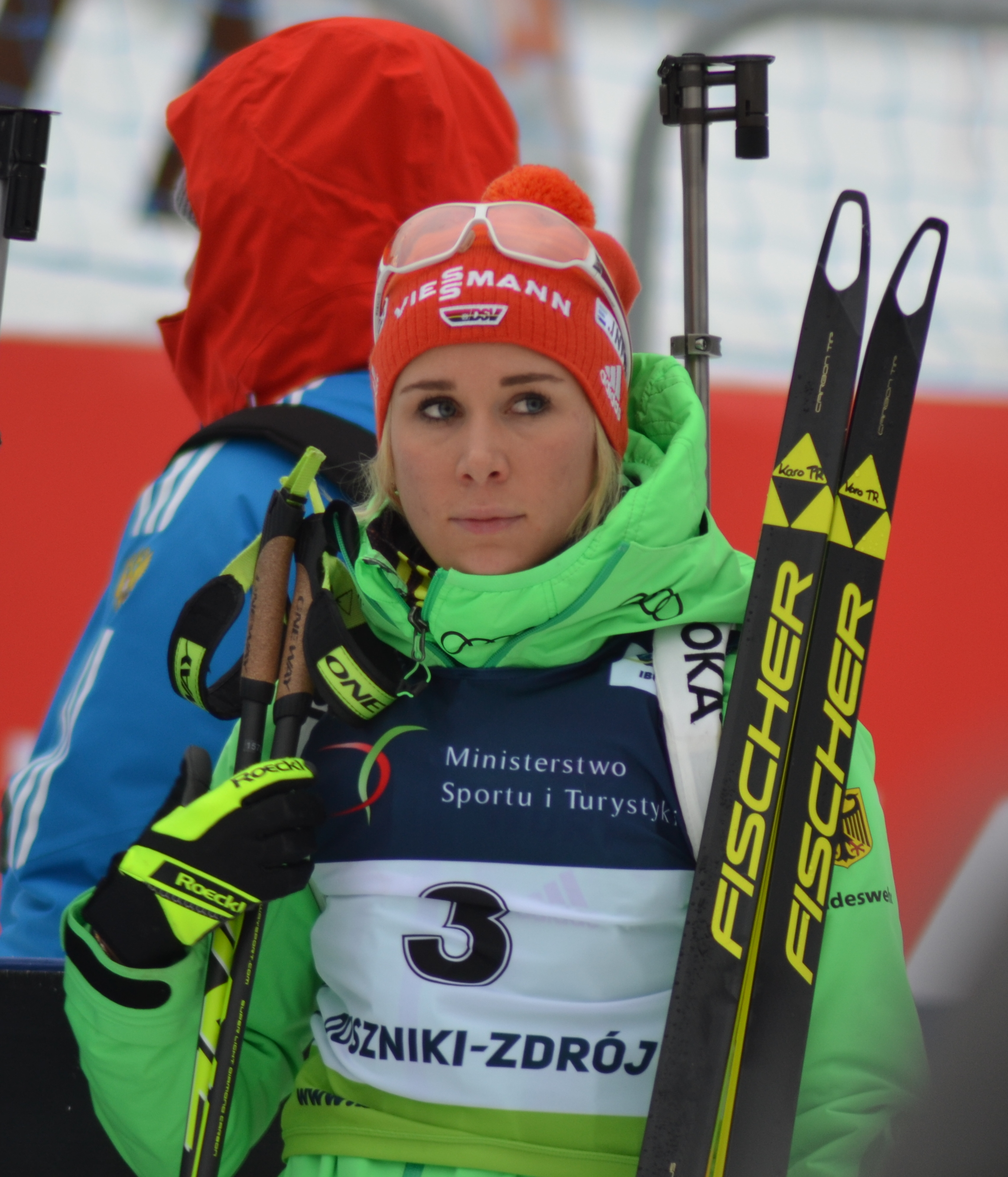 Open European Championships Biathlon 2017, Individual Women's race, held on January 25th.